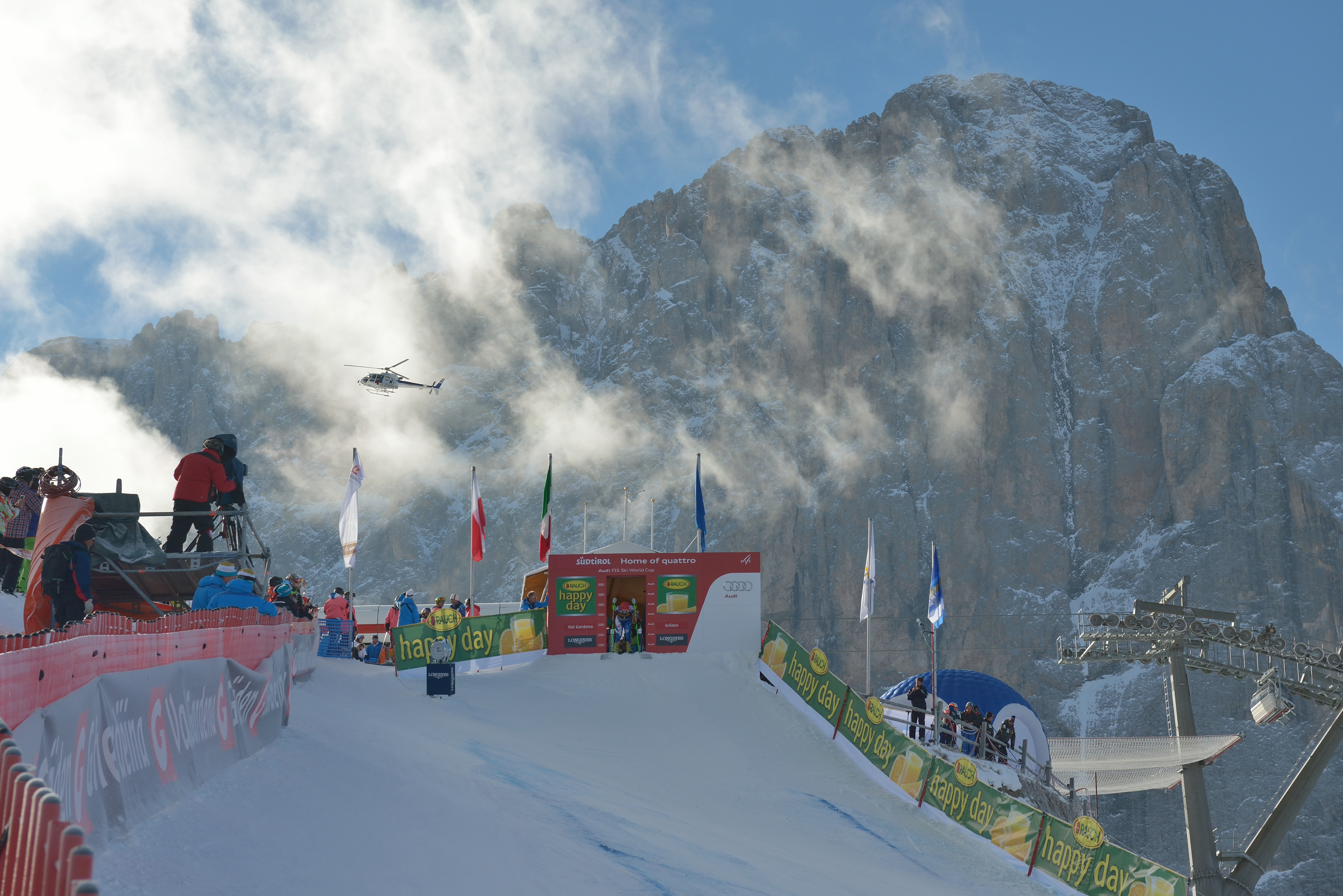 Starting racetrack for downhill Fis Ski World Cup Val Gardena-Gröden - 46th Saslong Classic in Gröden